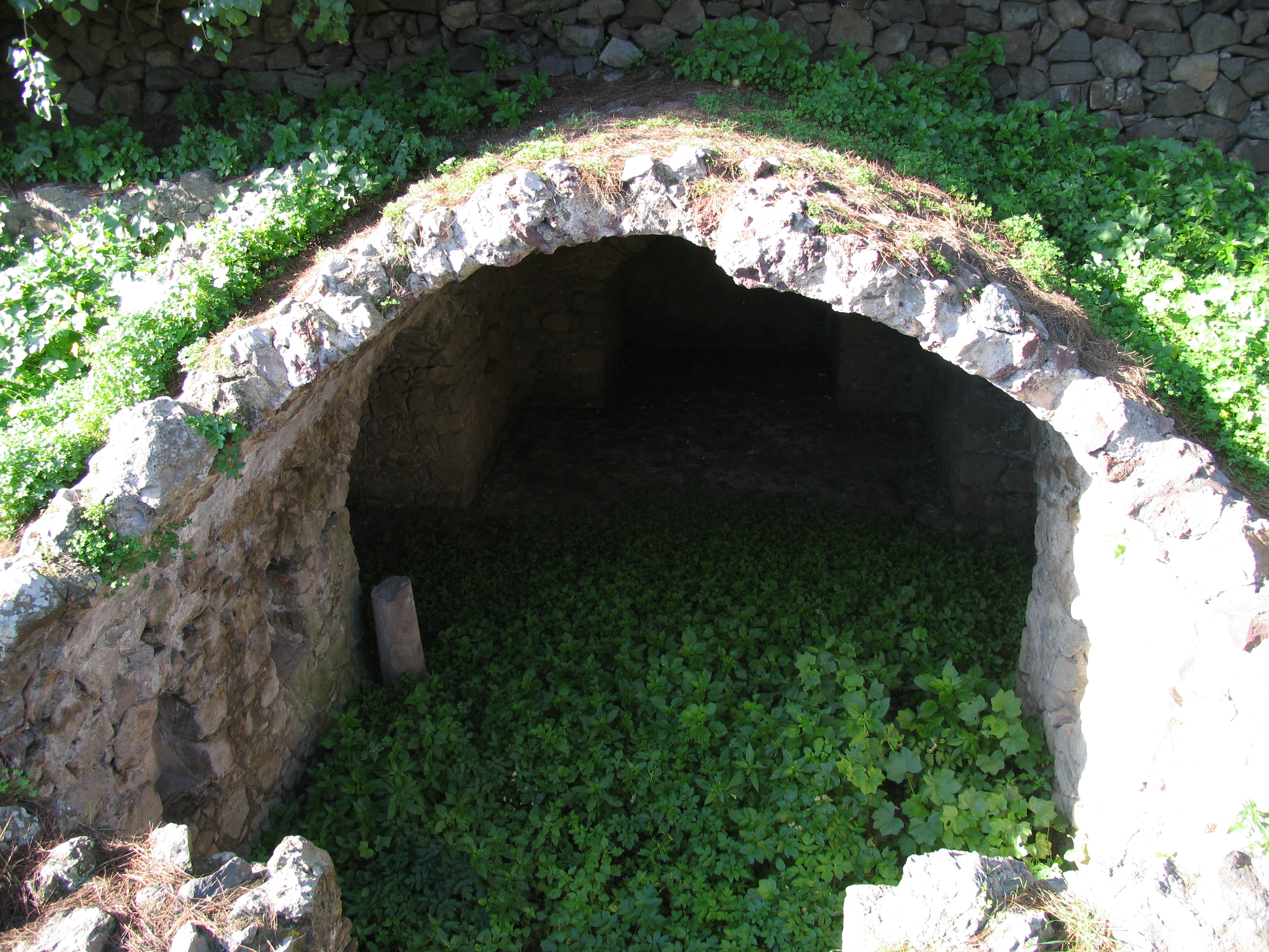 Roman age ruines on Lipari, Eolian islands, Sicily, Italy